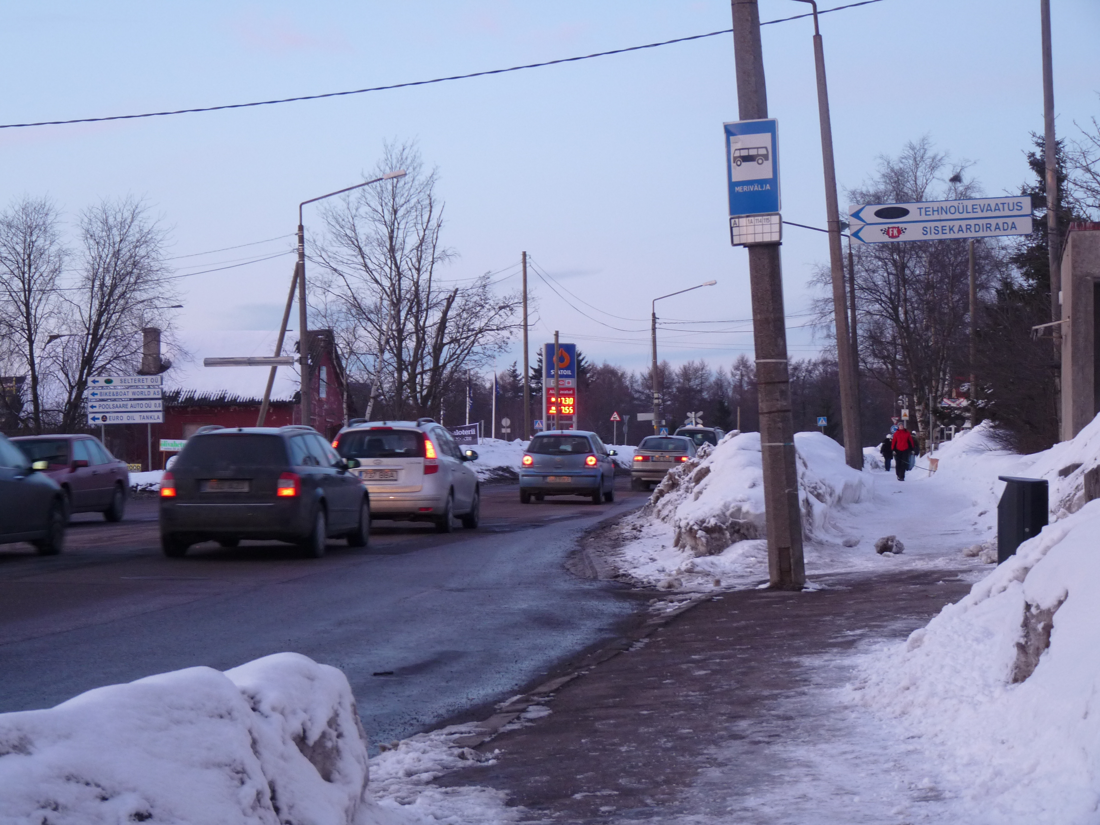 Merivälja bus stop. Be attention! It is last bus stop, where Tallinn public transport ticket is valid. Crossing after this stop you should buy Viimsi public transport ticket. If you travelling in Viimsi with Tallinn ticket and Municipal inspectors note it, you should pay fine 38.60 €